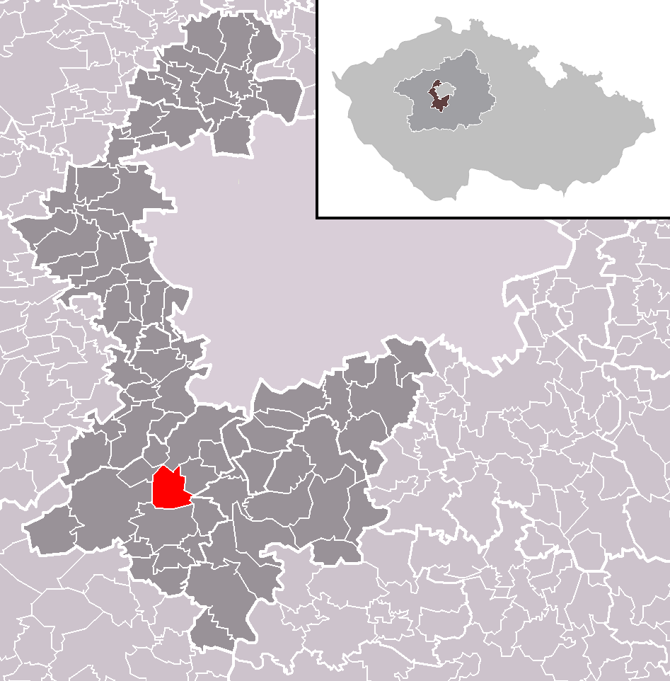 Location of Líšnice municipality within Prague-West District and administrative area of Černošice as a Municipality with Extended Competence.